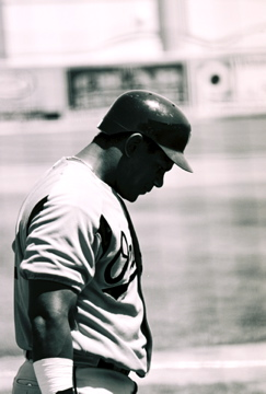 Sammy Sosa formerly of the Baltimore Orioles at the plate in a Spring training game.